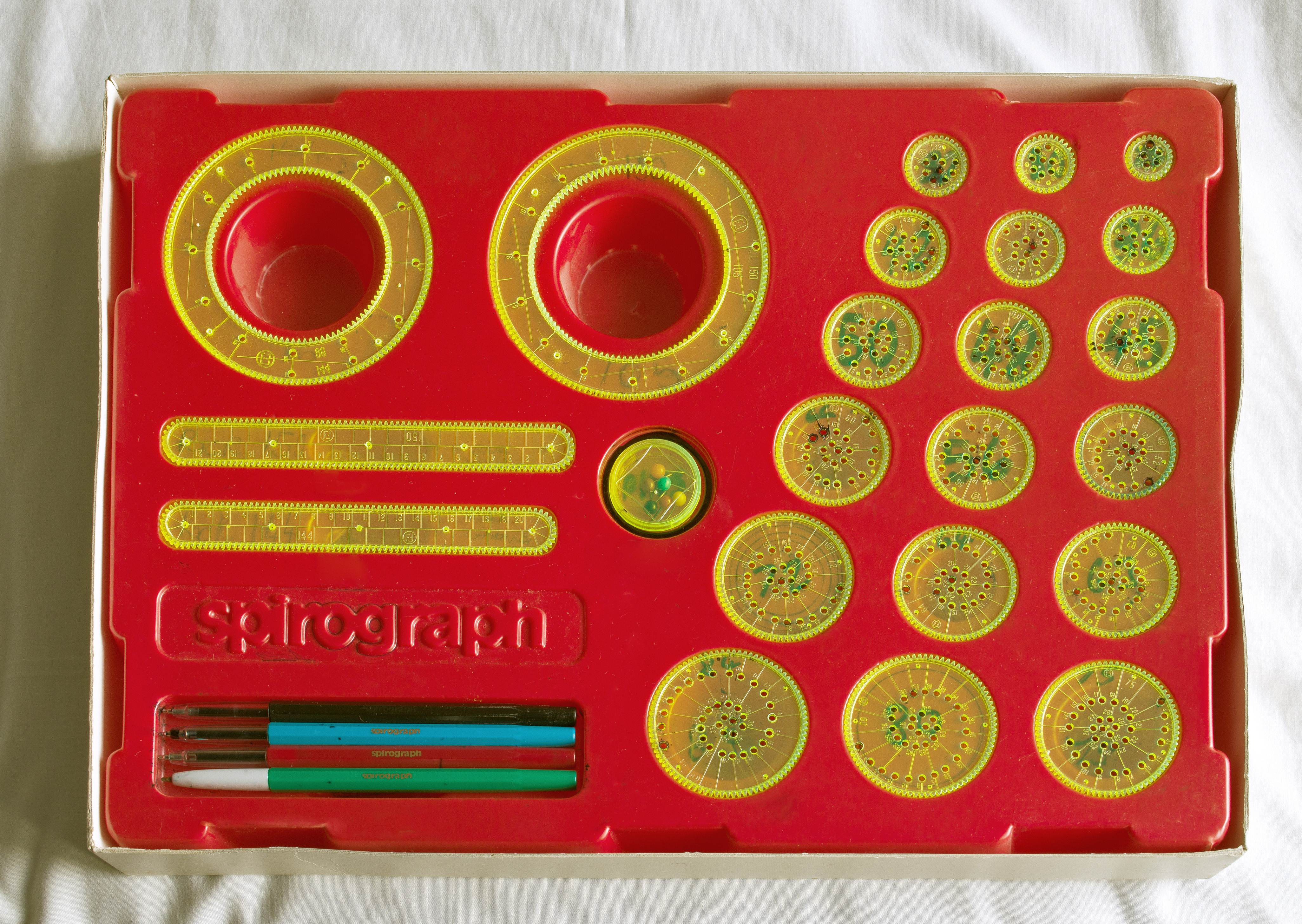 Spirograph set. This version was manufactured by Palitoy and bought in the UK in the early 1980s. (The pins are not original, nor- obviously- are the black markings on the red moulded case. But everything else shown- including the ballpoint pens- is original.)